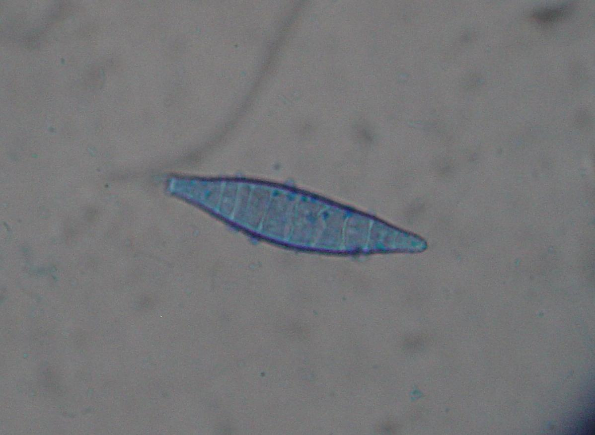 Photo of a Microsporum canis macroconidia taken through a microscope at 1000x magnification. M. canis is the most common cause of ringworm in dogs and also causes the disease in humans.